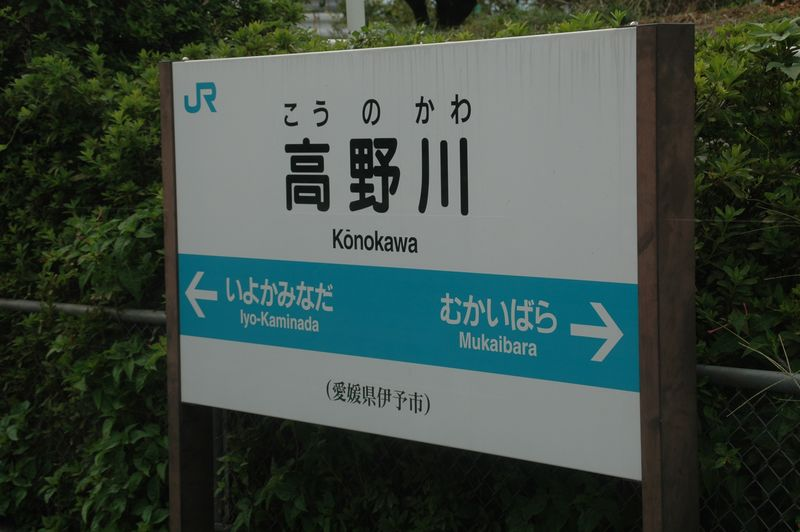 JR-Shikoku(JAPAN) Yosan Line, Kounokawa Sta. Station name sign. photo by 2005.9.19